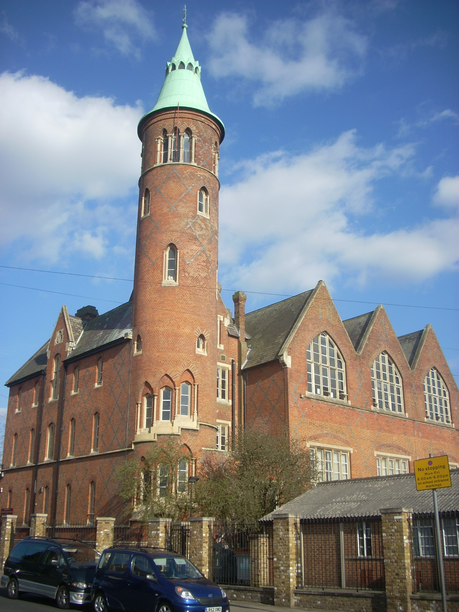 Christs College old building on hendon lane